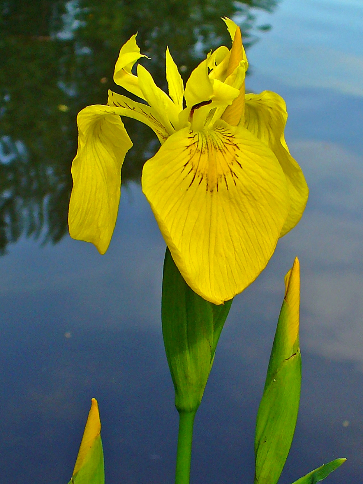 Iris pseudacorus, Iridaceae, Yellow Iris, Yellow Flag, flower; Karlsruhe, Germany. The plant is used in homeopathy as remedy: Iris pseudacorus (Iris-ps.)